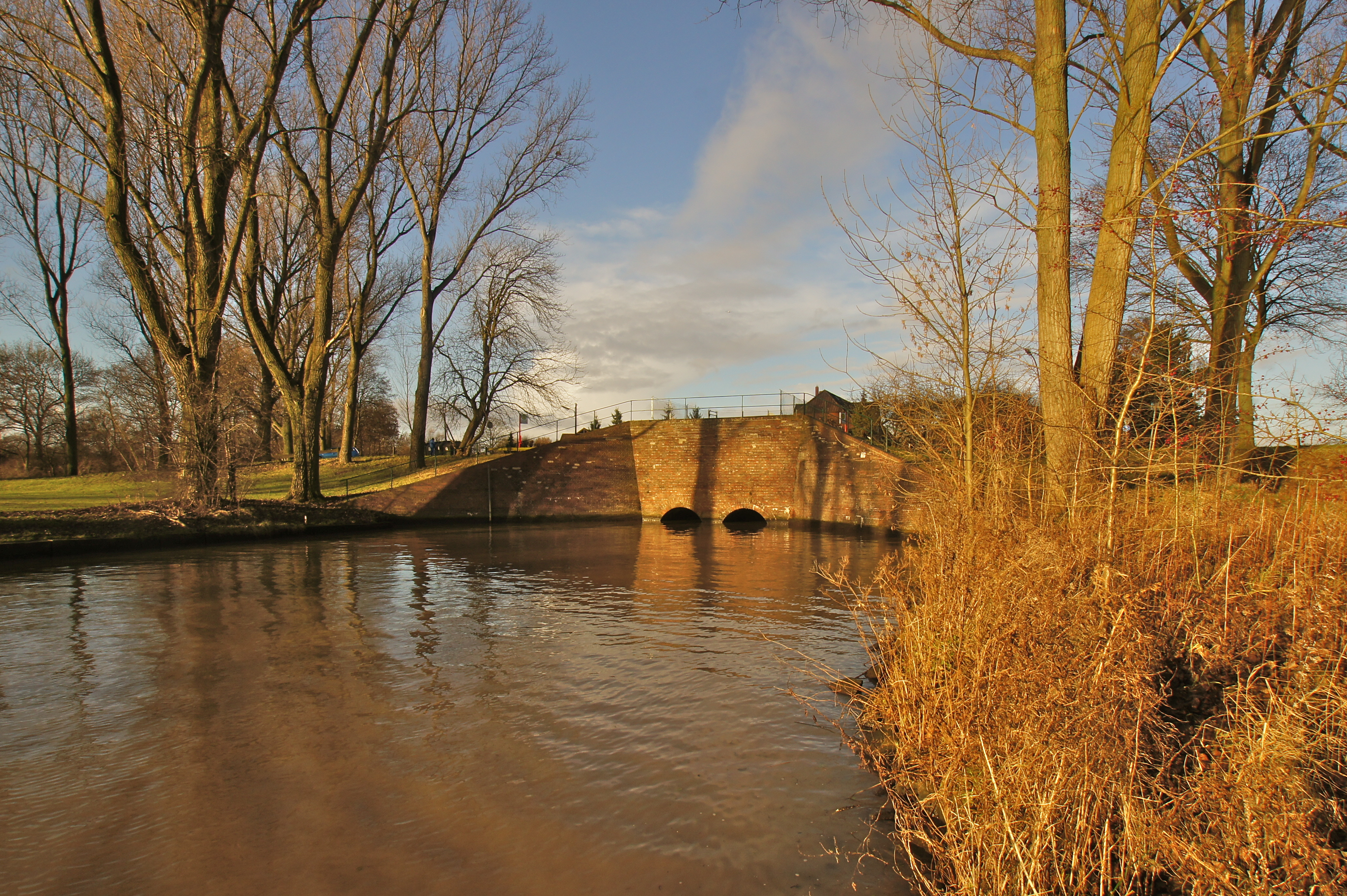 Hamburg (Allermöhe), Germany: Pumping station of the Hauptentwässerungsgraben Allermöhe toward the Dove Elbe